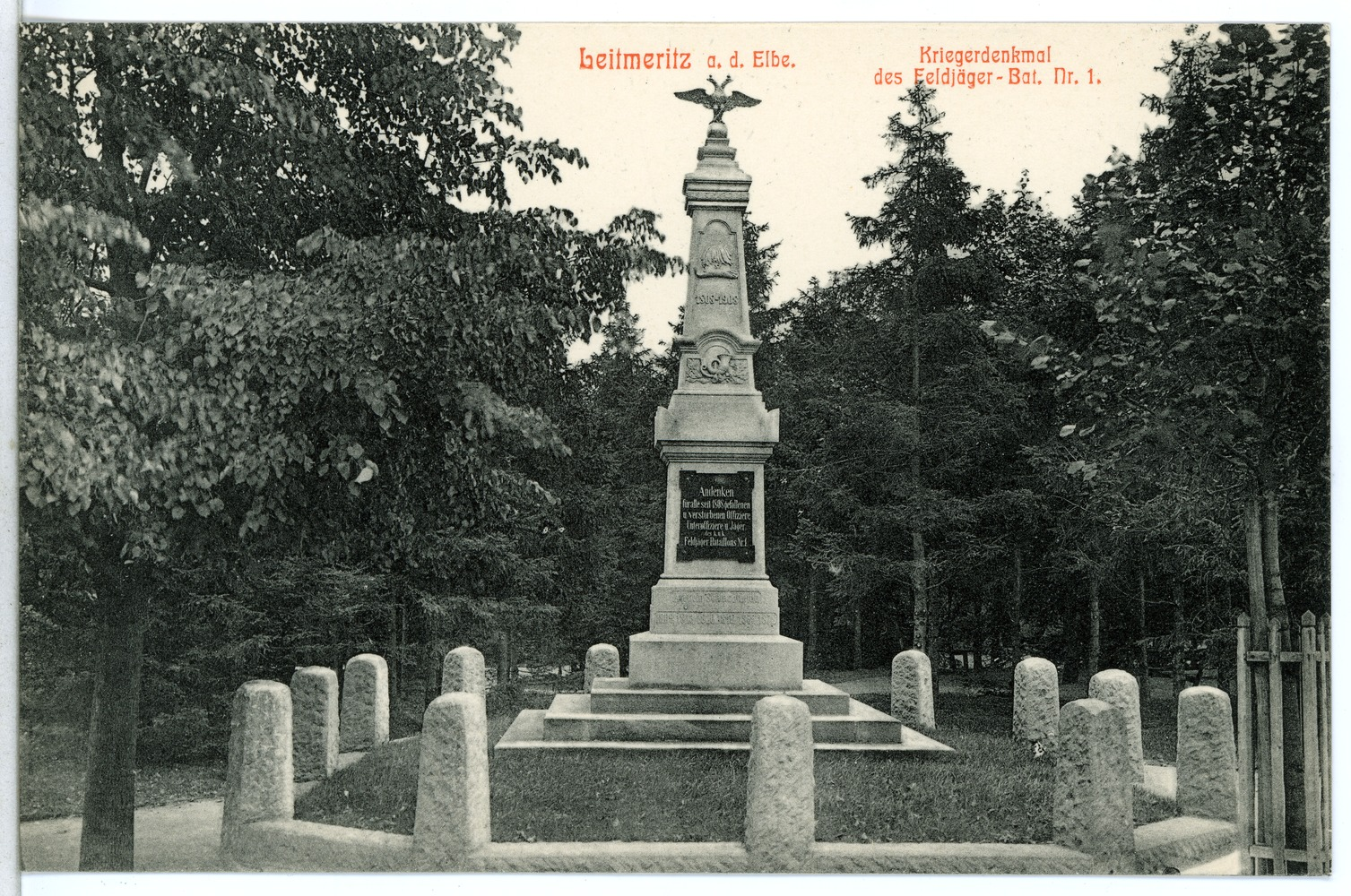 This postcard is from publisher Brück & Sohn in Meißen ( This postcard has a unique number 12926 and is available in a higher resolution at the publisher. This images was uploaded in a cooperation project between Wikipedians and the publisher.